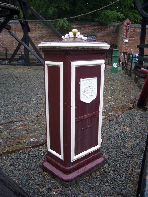 Nottingham Corporation Tramways junction box At the Nottingham Industrial Museum at Wollaton Park.